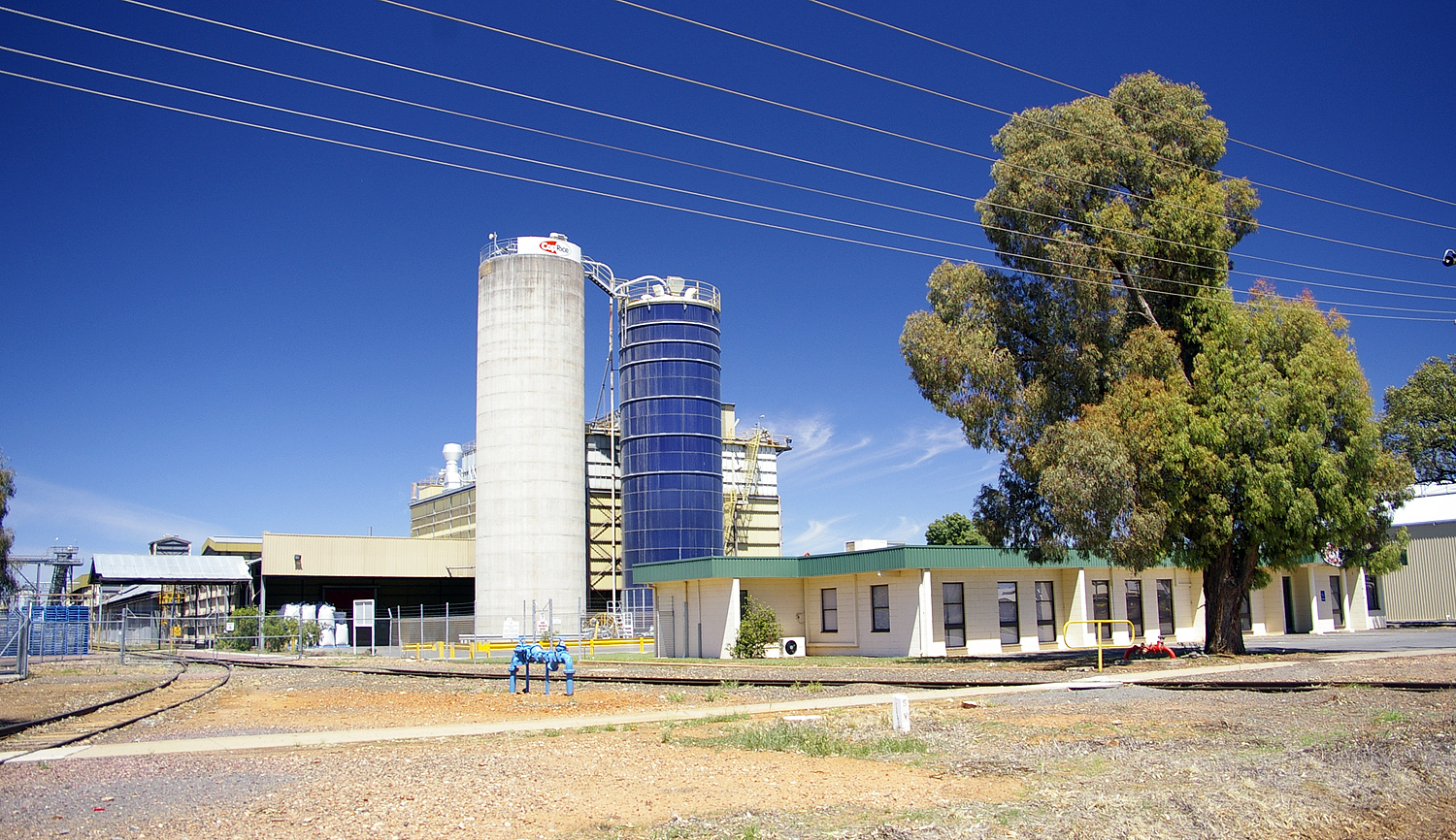 CopRice a division of SunRice which produces animal feed for farmers.